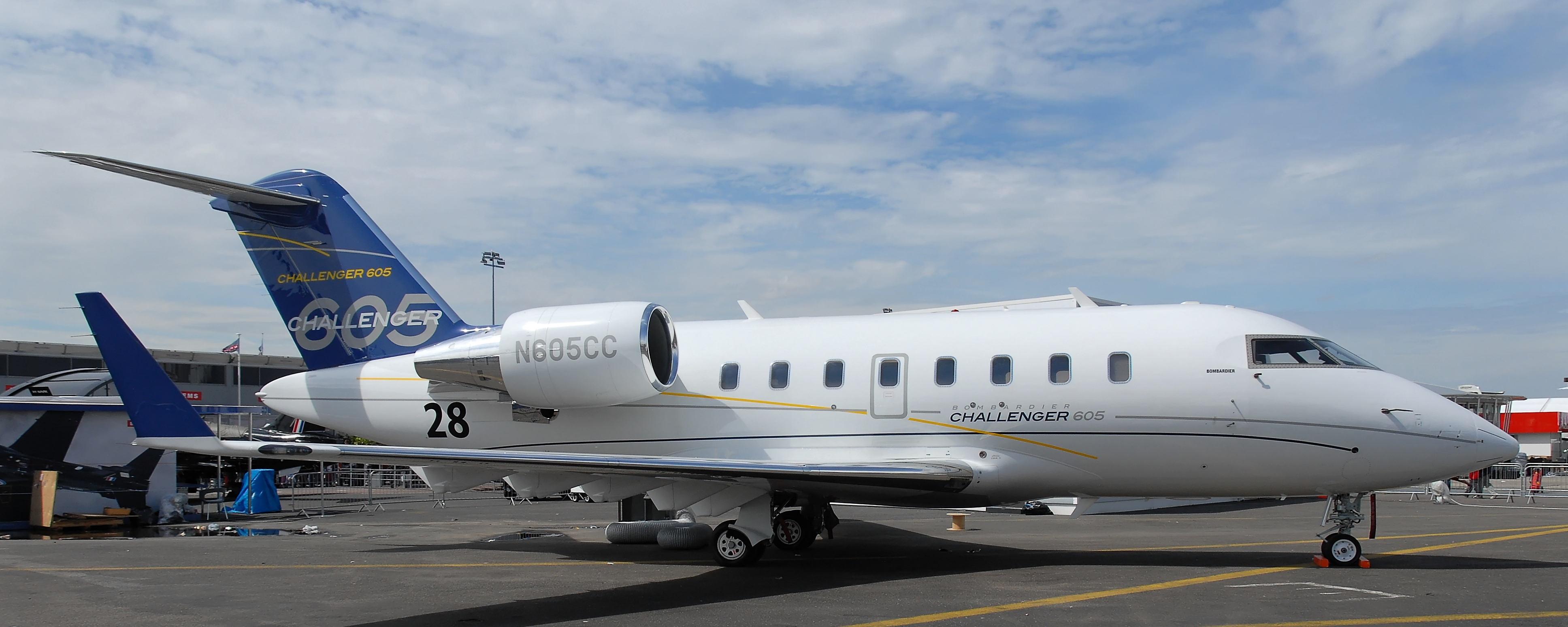 Bombardier Challenger 605 at the 2007 International Paris Air Show at the Le Bourget airport.